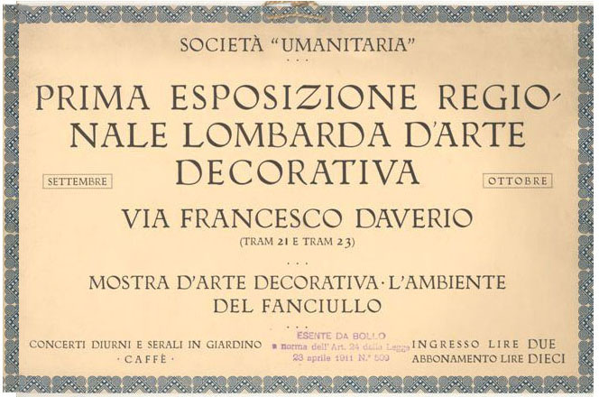 Advertising poster for the first Lombardy Regional Exposition for the Decorative Arts in Milan – 1919, Italy